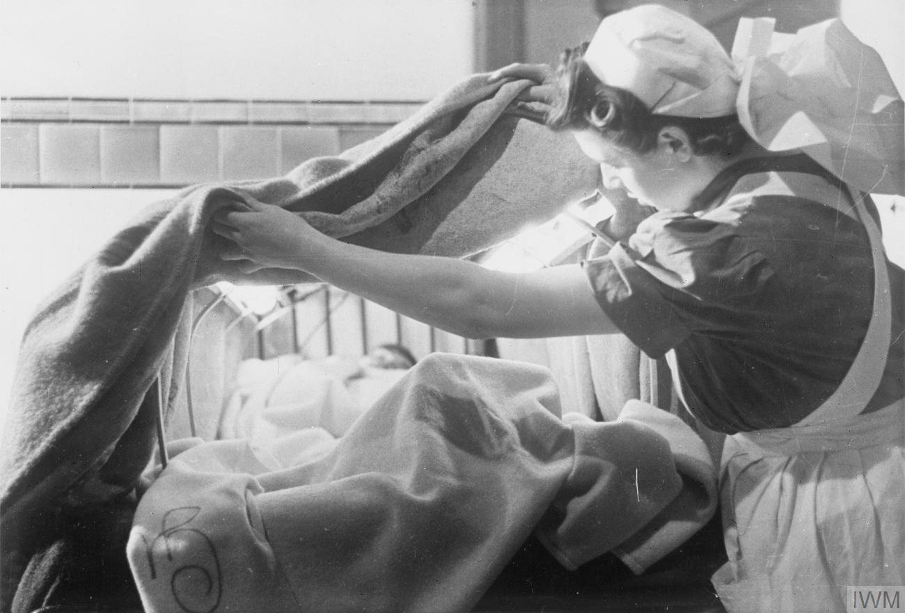 Guy's Hospital- Life in a London Hospital, England, 1941 A VAD (Voluntary Aid Detachment) nurse arranges an asbestos blanket over an electrically heated frame to create a hood over this patient to help warm them quickly. In cases of severe shock, the patient's clothes are cut away so that the surface of the skin can some into closer contact with the heat.